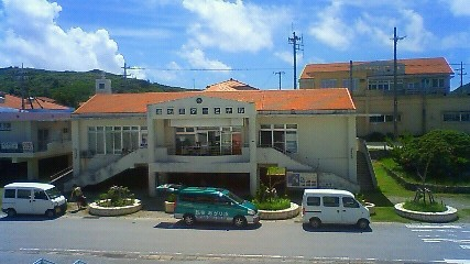 Tonaki Port. Tonaki Port, Tonakijima.